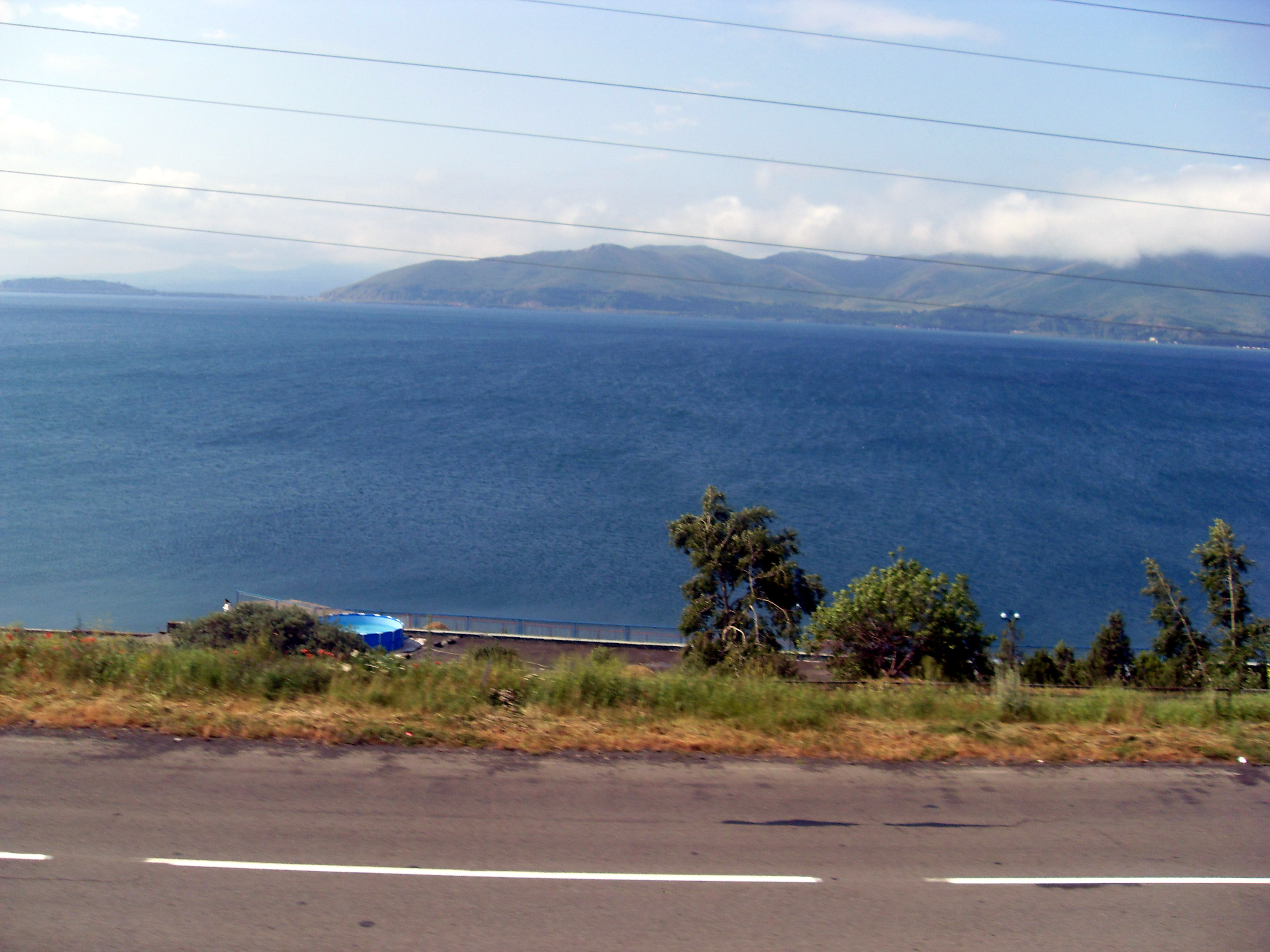 Sevan National park, Armenia